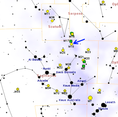 Map of M18